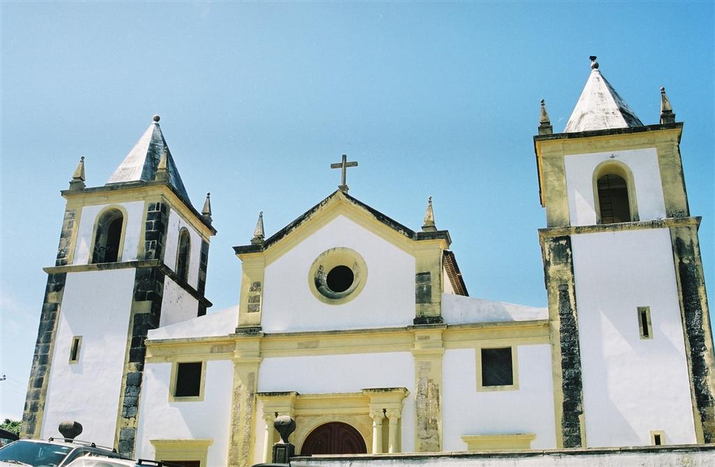 Main façade of the Cathedral of Olinda, Brazil